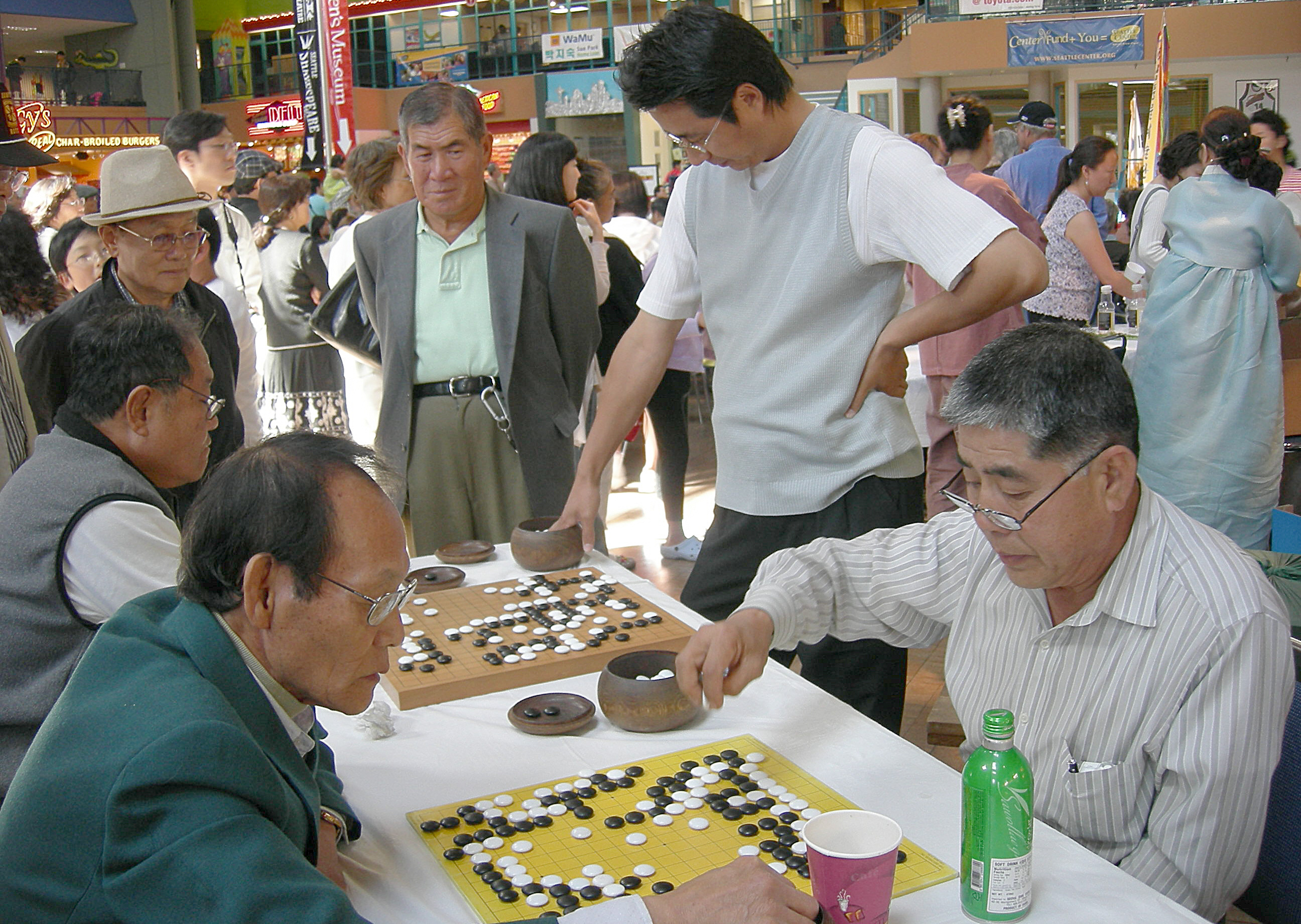 Playing baduk (Hangul: 바둑; known as Weiqi in